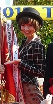 Yasunari-Iwata20120527-1